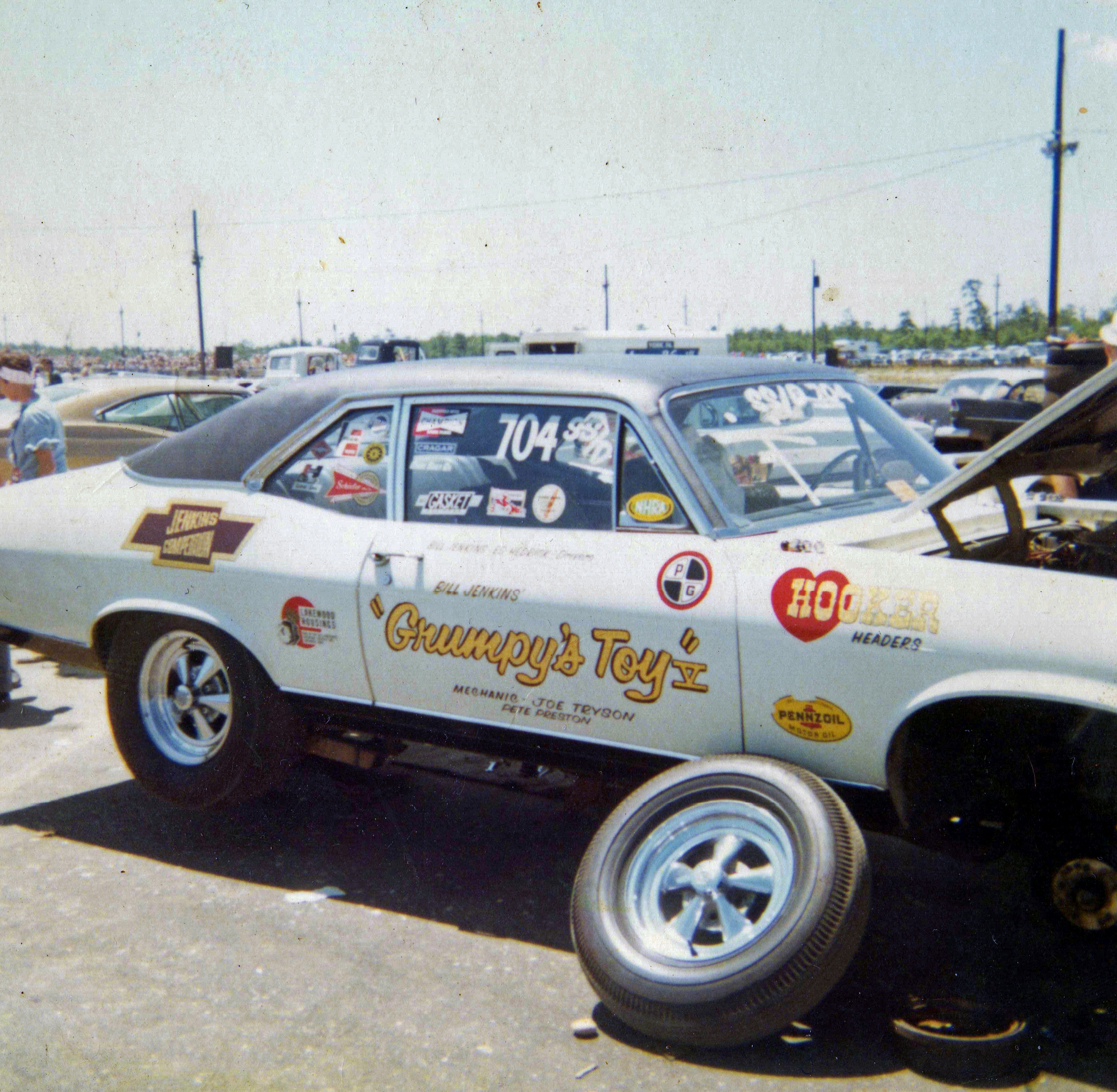 NHRA drag racer Bill Jenkins (racer) dragster called "Grumpy's Toy" V.